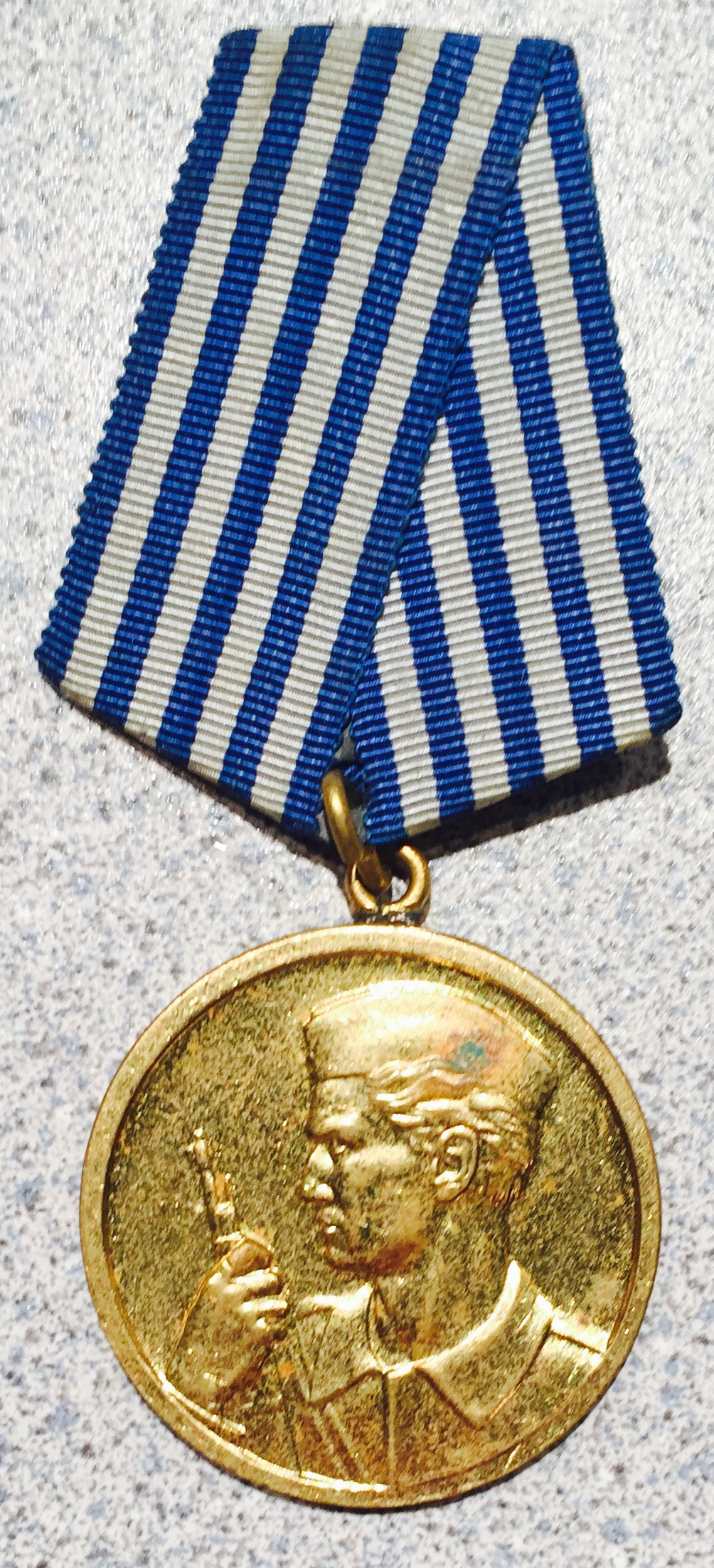 Photograph of the Yugoslav Medal for Bravery